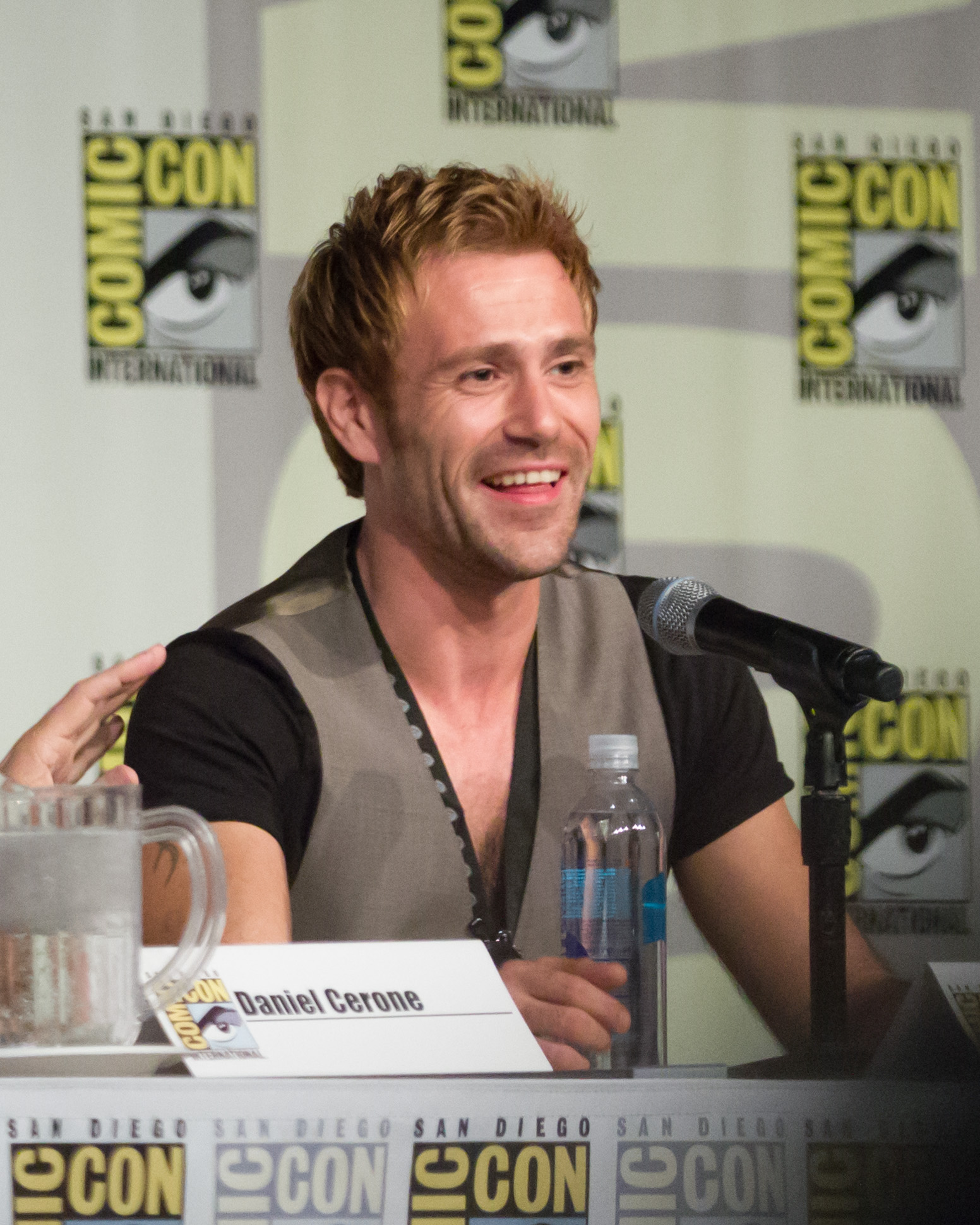 Matt Ryan at the 2014 Comic Con presentation for the TV show Constantine